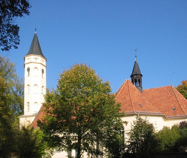 Kreuzkirche, built in 1697, in the town Königs Wusterhausen in the district Dahme-Spreewald, state Brandenburg, Germany.